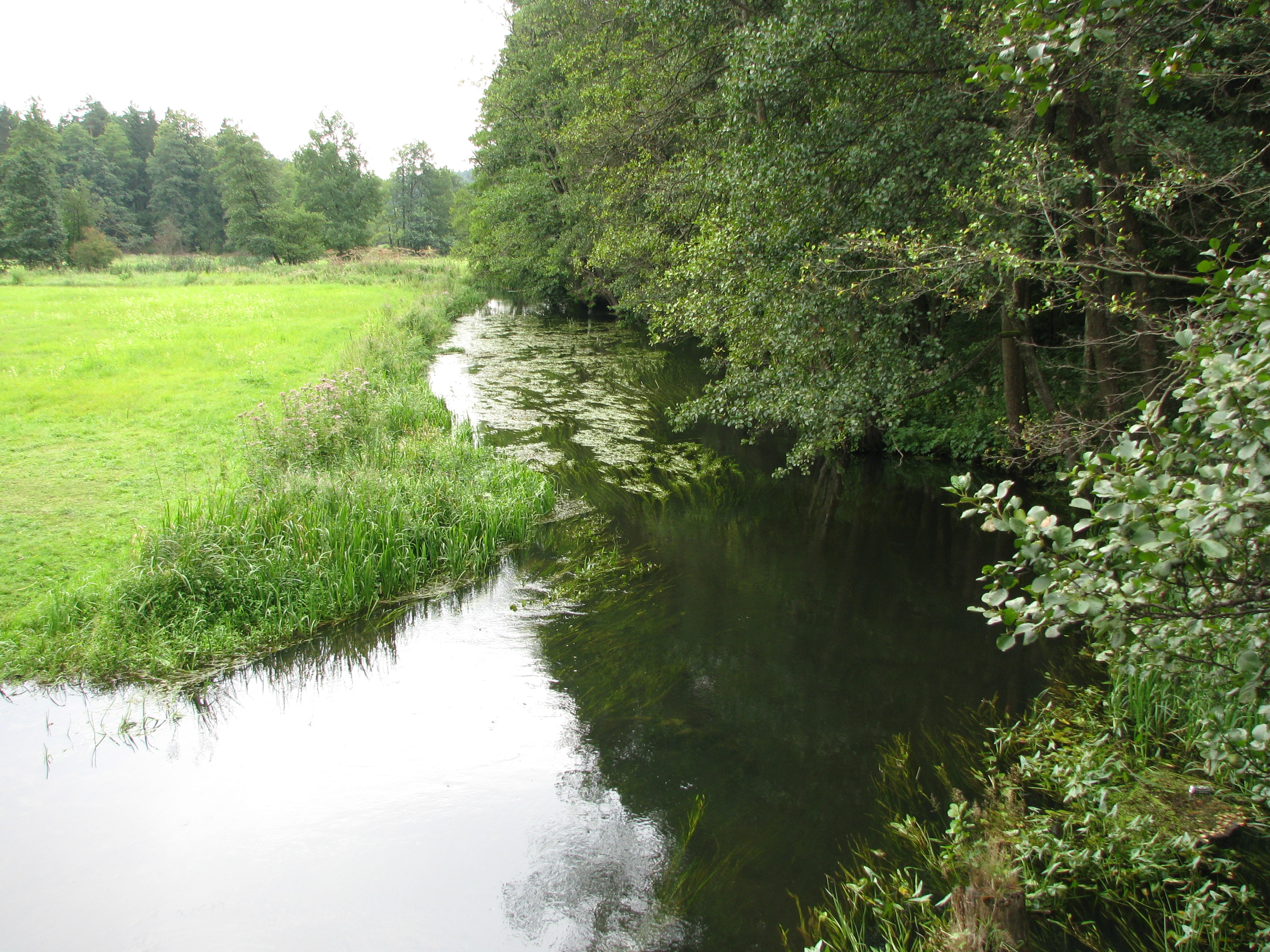 Rospuda river, Suwalszczyzna region, north-east Poland